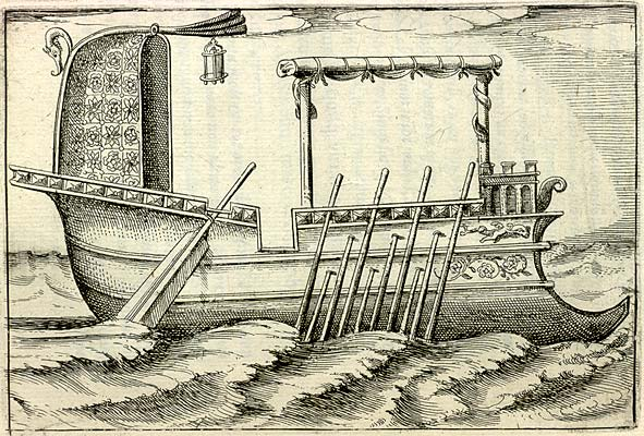 Frontispiece of Willebrord Snellius' Tiphys Batavus.